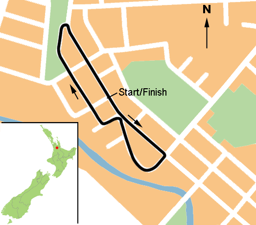 Map showing the route of the Paeroa Street temporary motorcycle racing circuit, with inset showing location of Paeroa in New Zealand